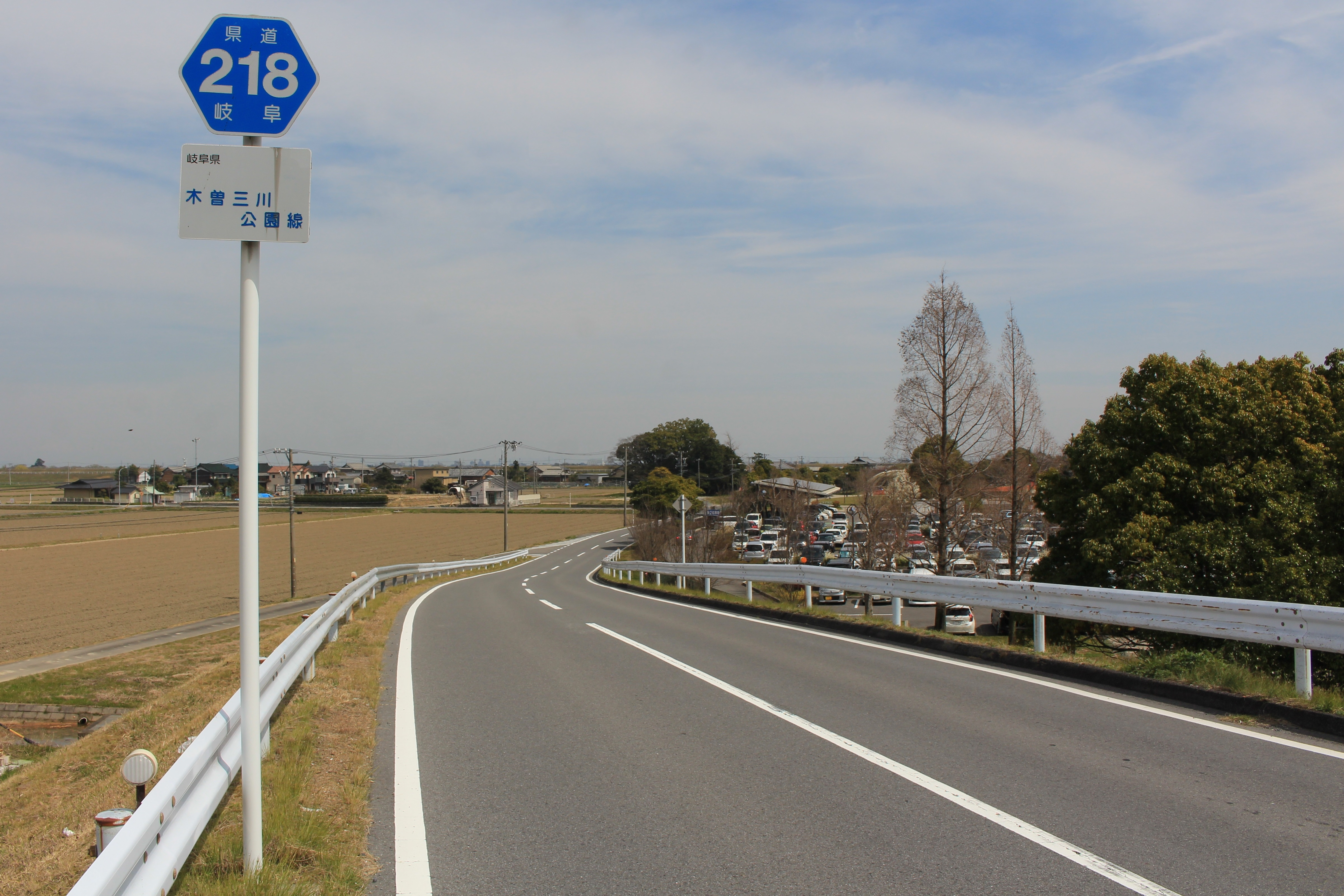 Gifu Prefectural Road Route 218 in Aburajima, Kaizu, Gifu prefecture, Japan.